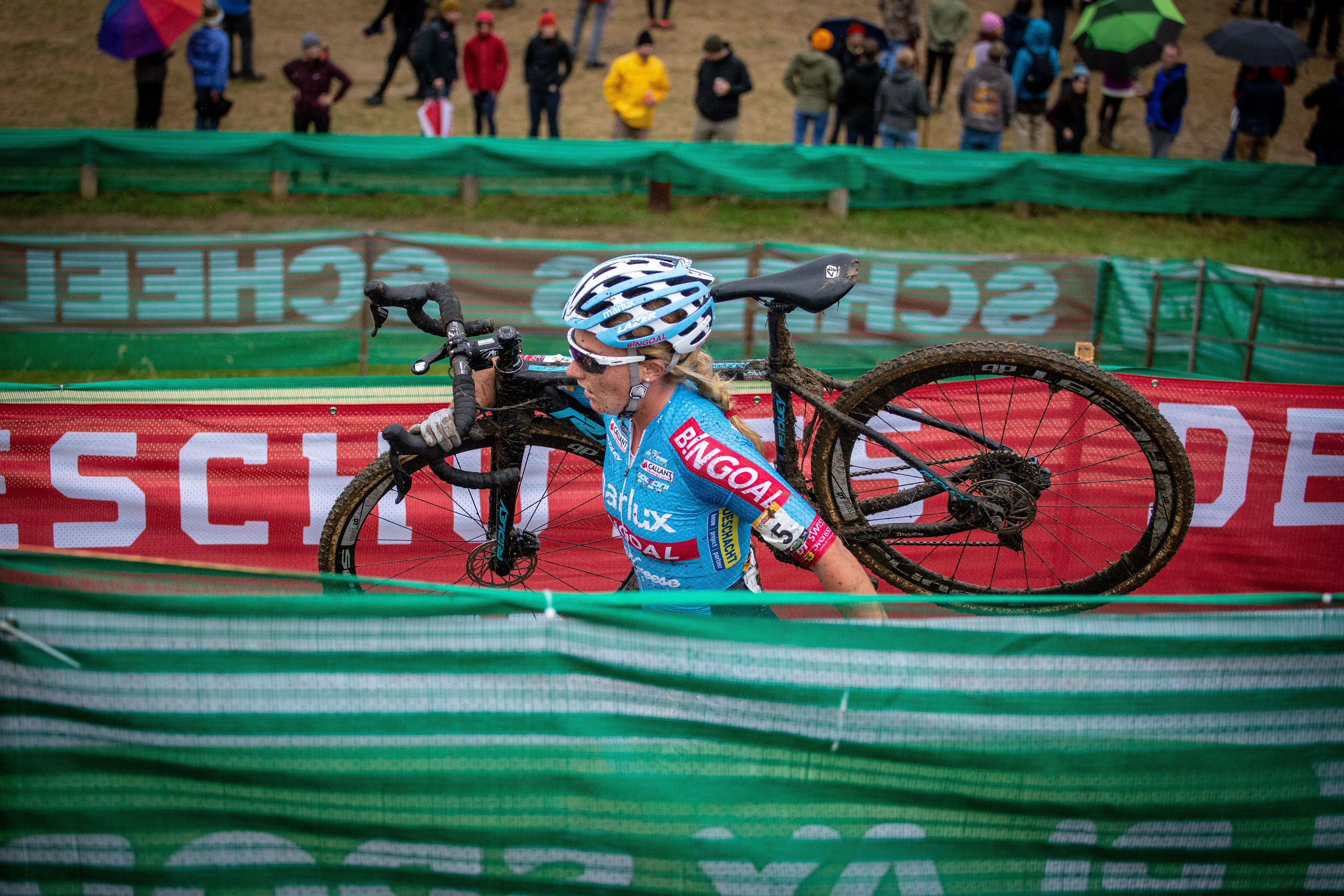 Photos from the 2018 Jingle Cross Cyclocross World Cup races in Iowa City. Toon Aerts (BEL) of Telenet-Fidea Lions won the men's race while current World Champion Wout Van Aert (BEL) was runner-up. Katie Keogh (USA) of Team Cannondale won the women's race while Evie Richards of Great Britain was runner-up.